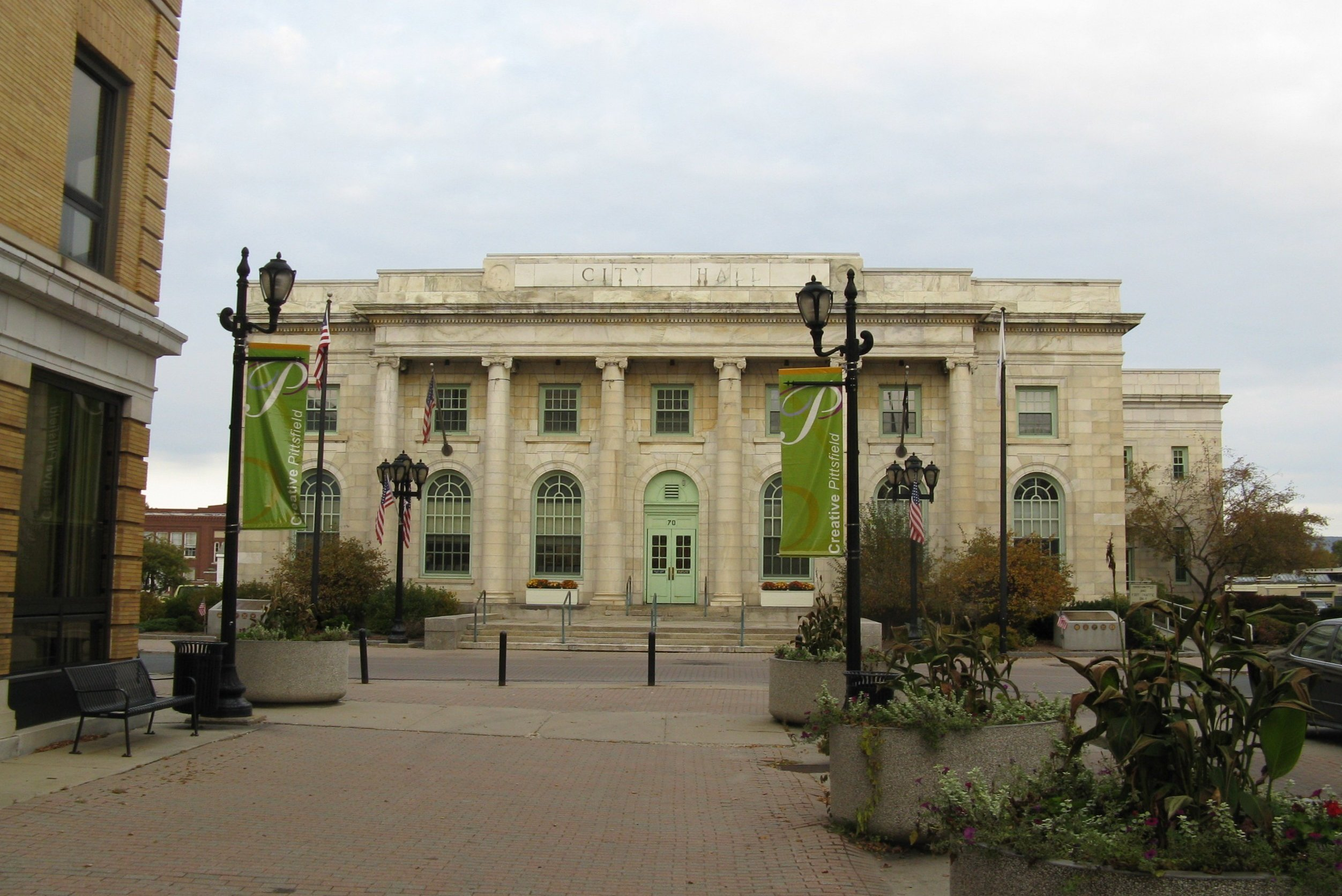 City Hall, Pittsfield Massachusetts